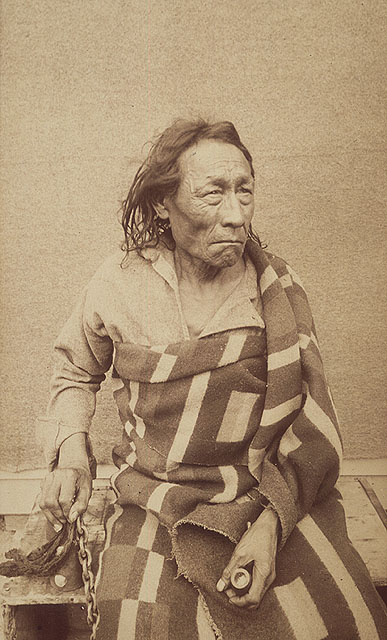 Big Bear/Mistahimaskwa